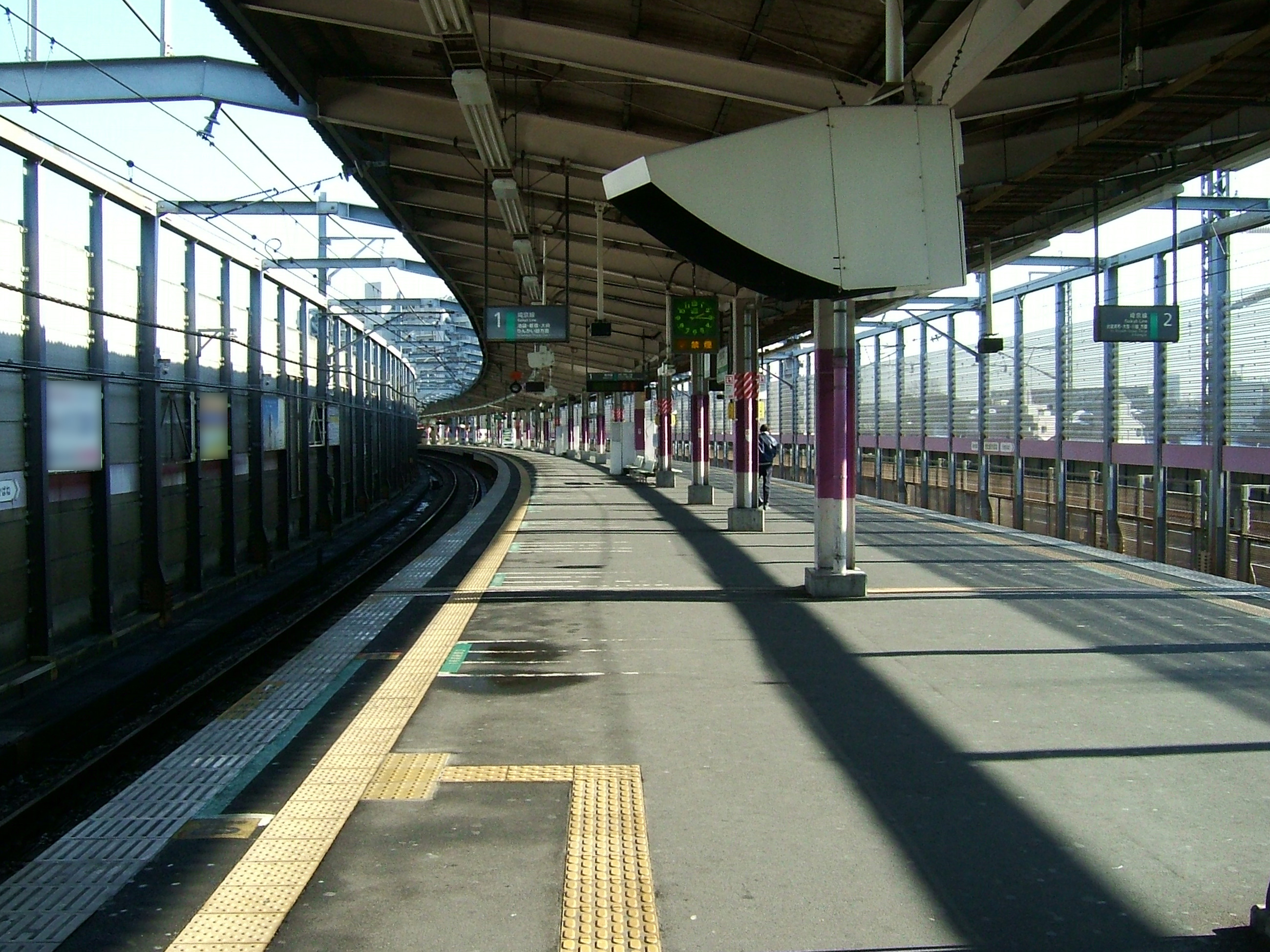 The platform at Kita-Akabane Station on Saikyō Line in Kita city, Tokyo, Japan